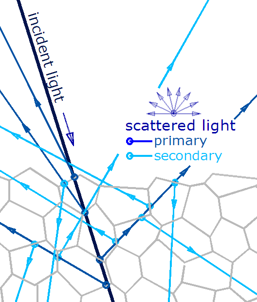 General mechanism of diffuse reflection by a non metallic solid surface